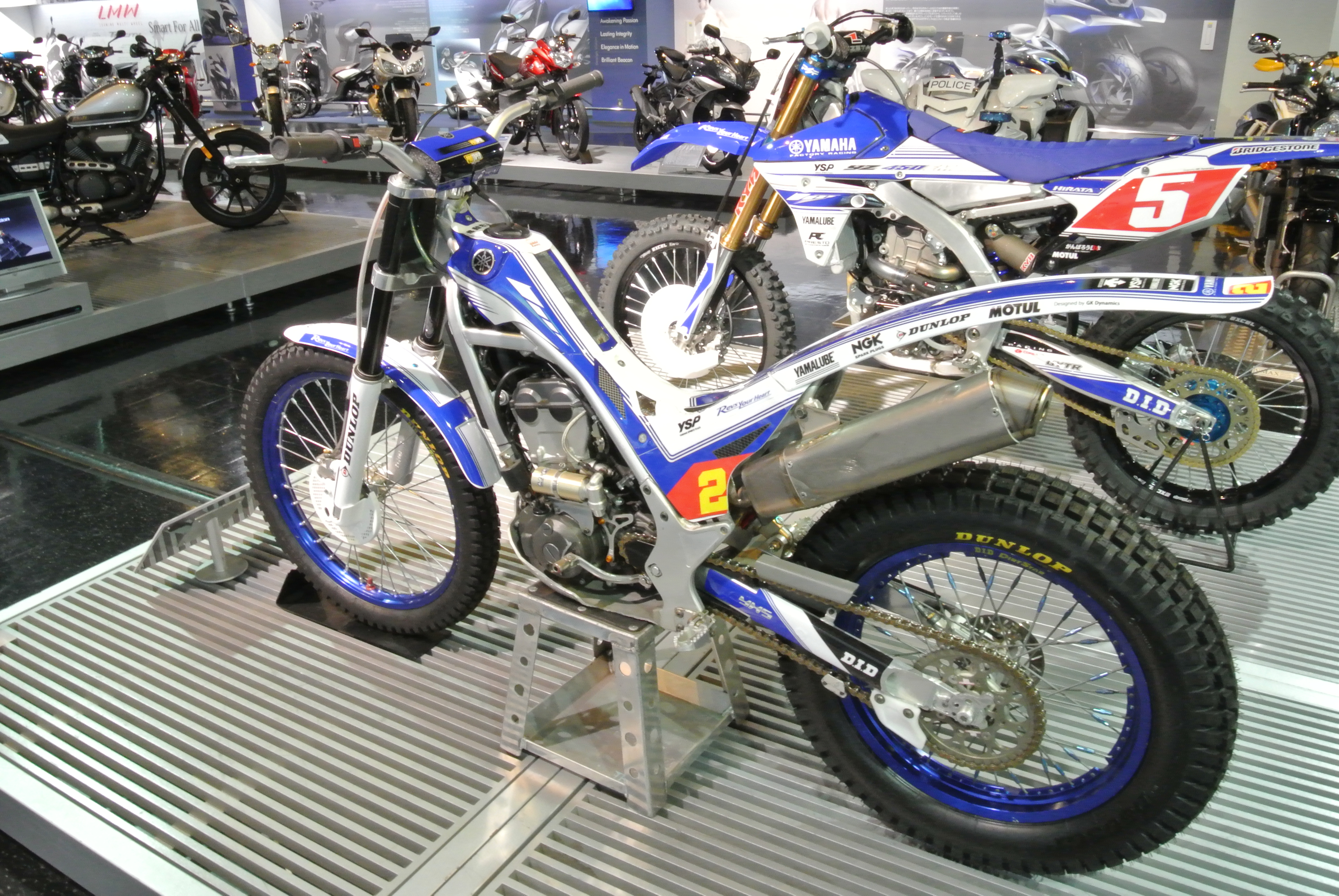 2015 Yamaha Competion Trial Motorcycle TYS250F in the Yamaha Communication Plaza.